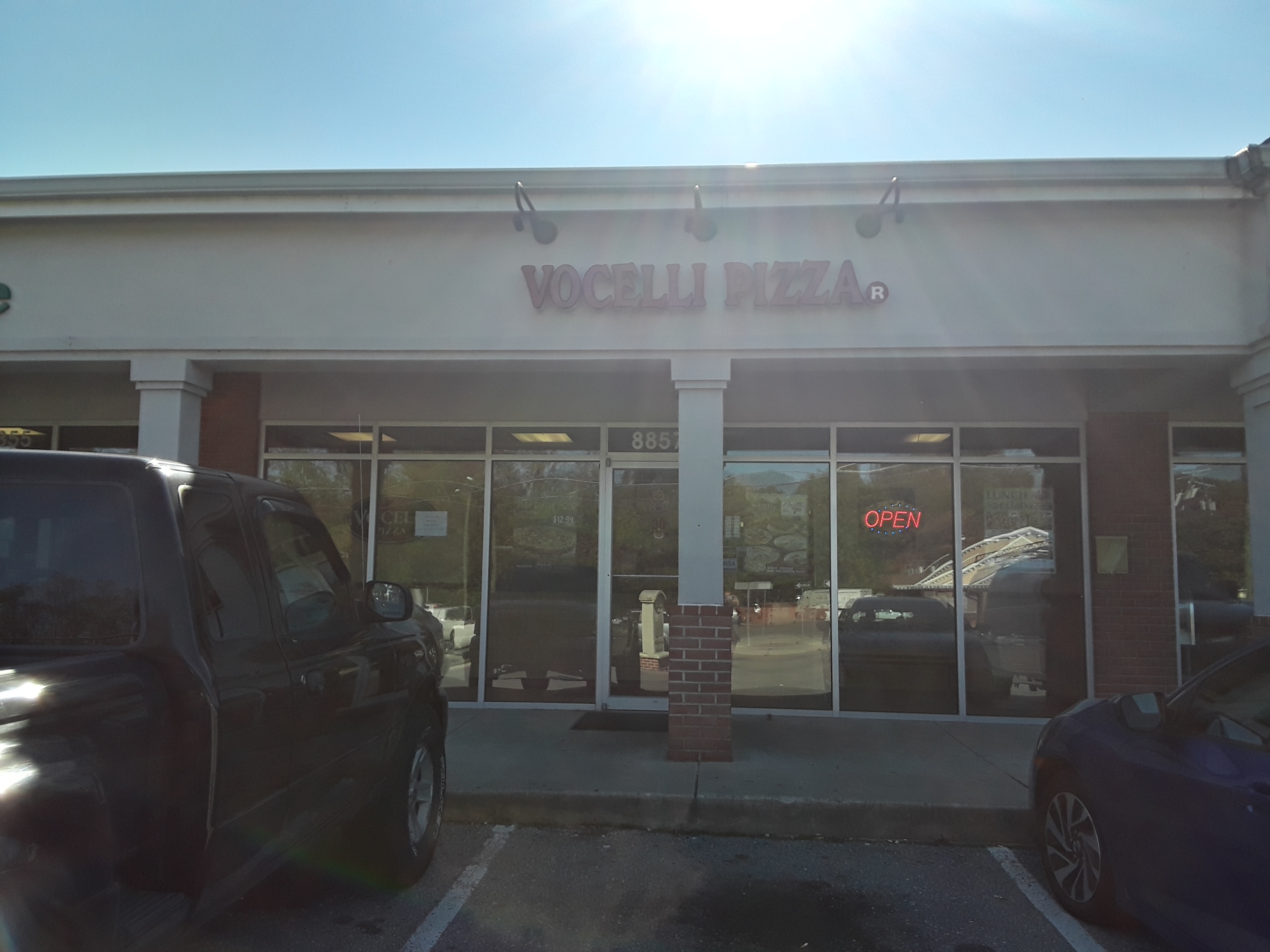 Vocelli Pizza franchise in Engleside, Virginia